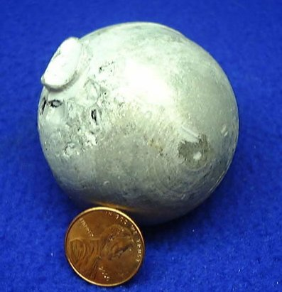 Cadmium.